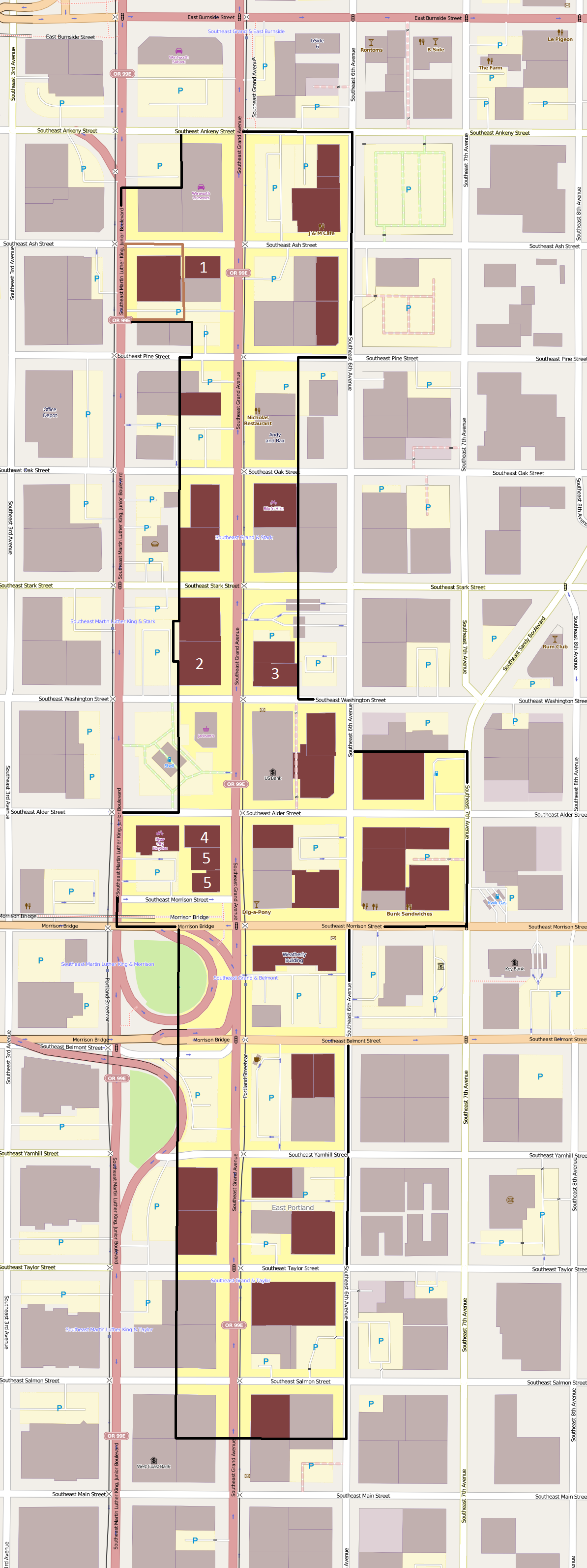 Map showing the boundaries of the East Portland Grand Avenue Historic District in Portland, Oregon, United States. The historic district is listed on the US National Register of Historic Places. Data regarding boundaries and contributing properties are derived from the historic district's original National Register nomination form (1990) and nomination form to expand the district (2013). Black boundary/yellow area: East Portland Grand Avenue Historic District boundaries. Brown boundary: Area of the 2013 expansion of the historic district. Maroon shading: Buildings listed as contributing resources in the East Portland Grand Avenue Historic District. White numbers: Represent the locations of contributing resources in the historic district that are also listed individually on the National Register: Osborn Hotel New Logus Block Barber Block West's Block Nathaniel West Buildings